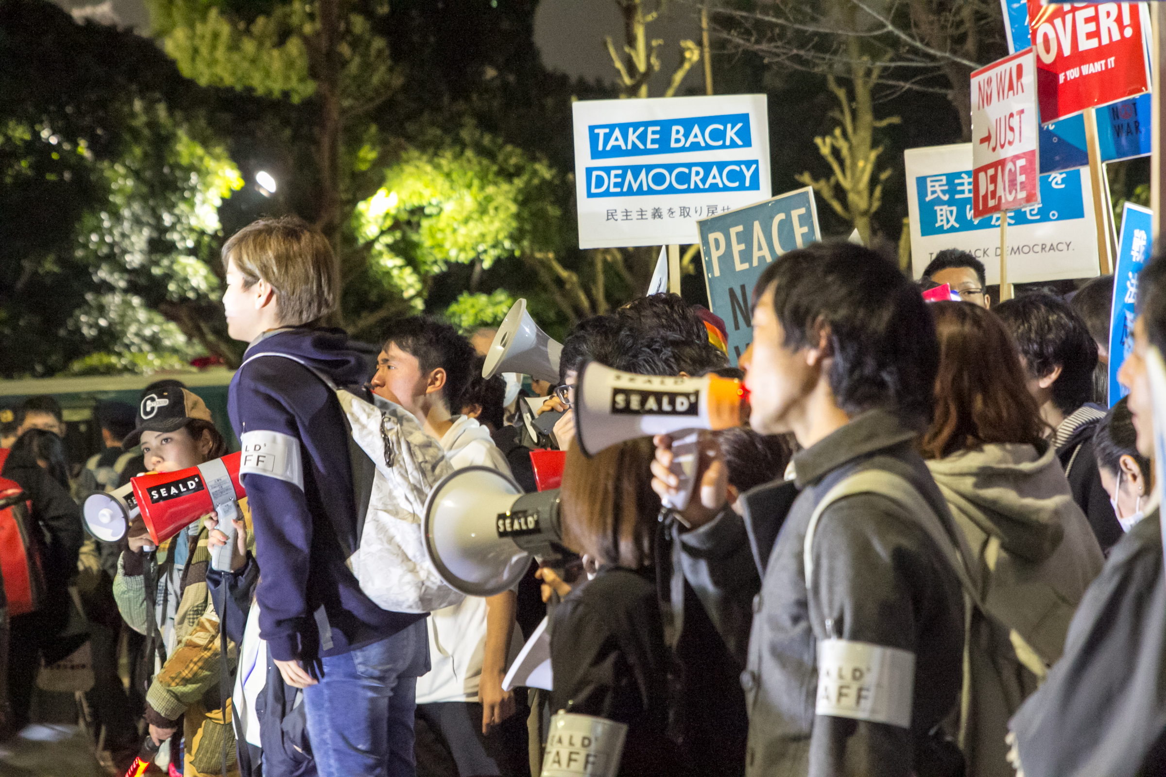 SEALDs demonstration near the Diet building in Tokyo